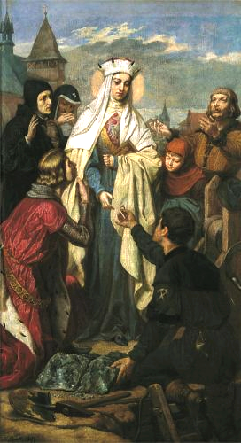 Kinga of Poland